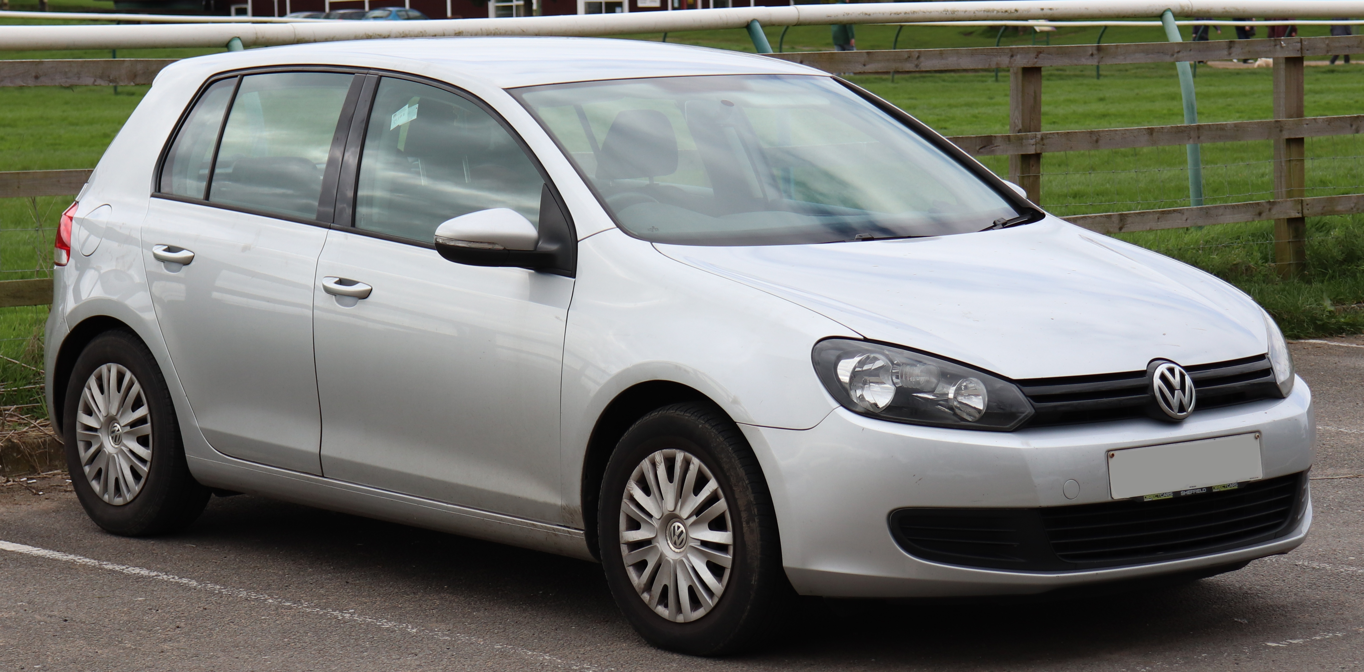 2010 Volkswagen Golf S TDi 1.6 Taken in Warwick